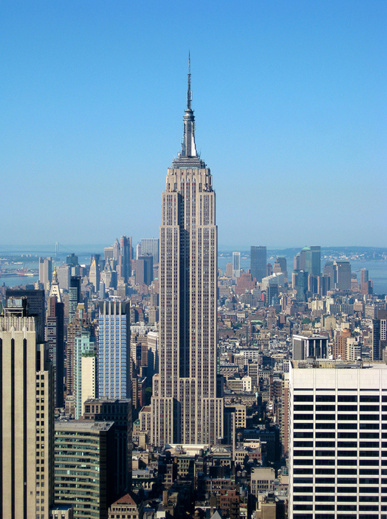 The Empire State Building is a 102-story landmark Art Deco skyscraper in New York City at the intersection of Fifth Avenue and West 34th Street. Its name is derived from the nickname for the state of New York, The Empire State. It stood as the world's tallest building for more than forty years, from its completion in 1931 until construction of the World Trade Center's North Tower was completed in 1972. Following the destruction of the World Trade Center in 2001, the Empire State Building once again became the tallest building in New York City and New York State.